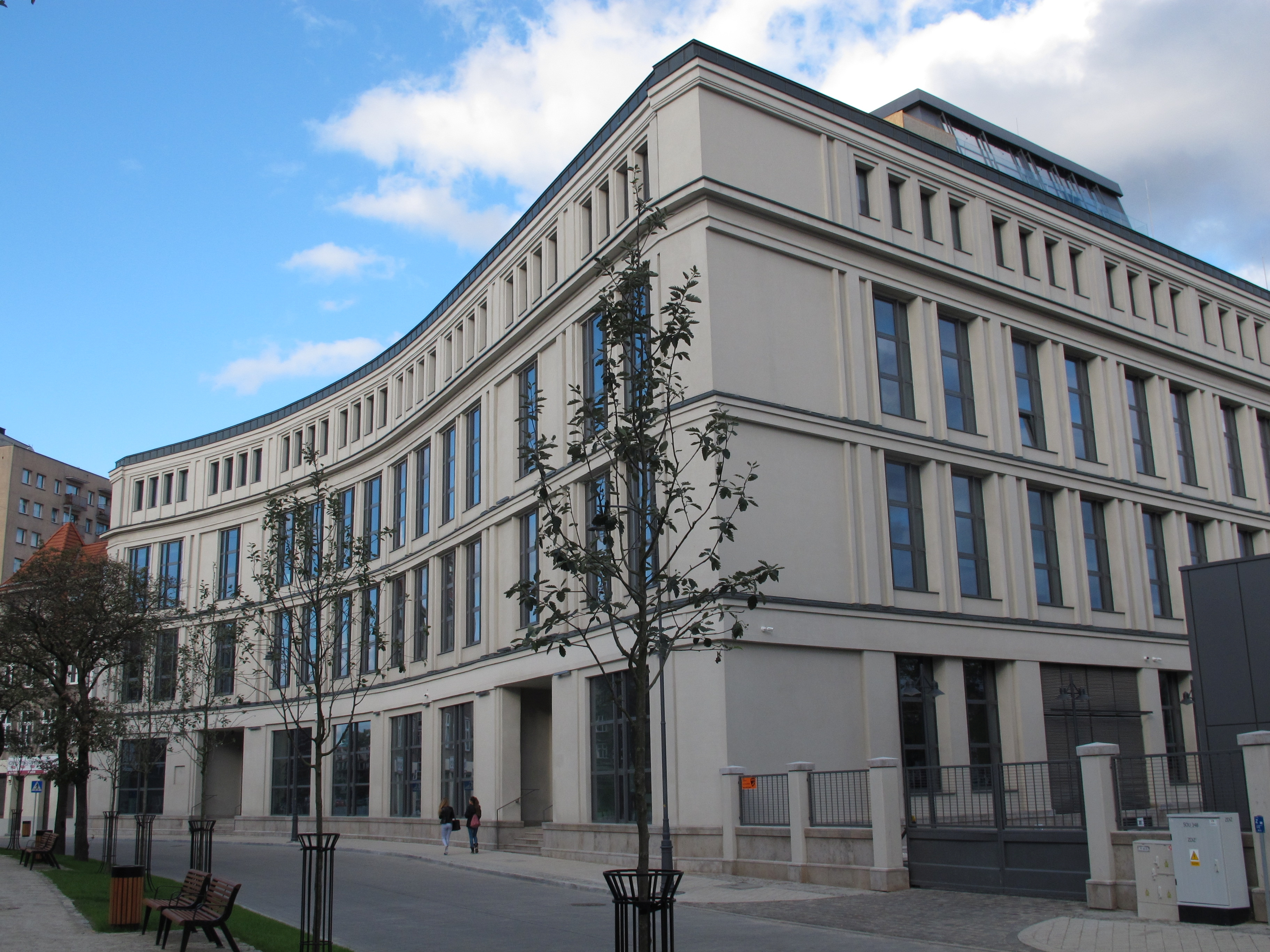 Gdańsk - head office of clothng manufacturer LPP in Łąkowa str.